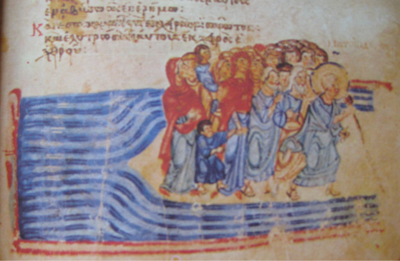 Crossing of Red Sea from Chludov Psalter